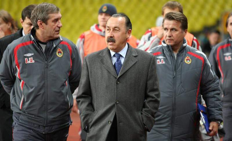 Valeriy Gazzaev